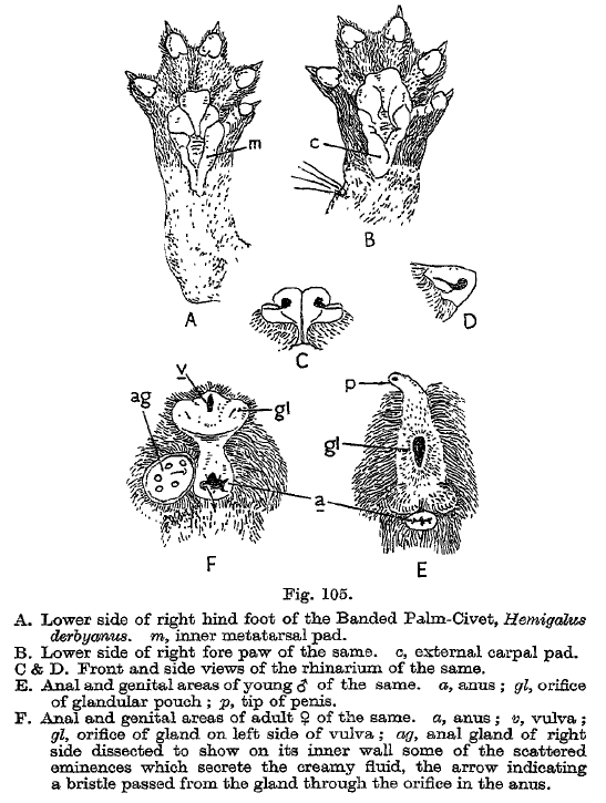 Paws, nose, ears, anal glands and genitals of a banded palm civet